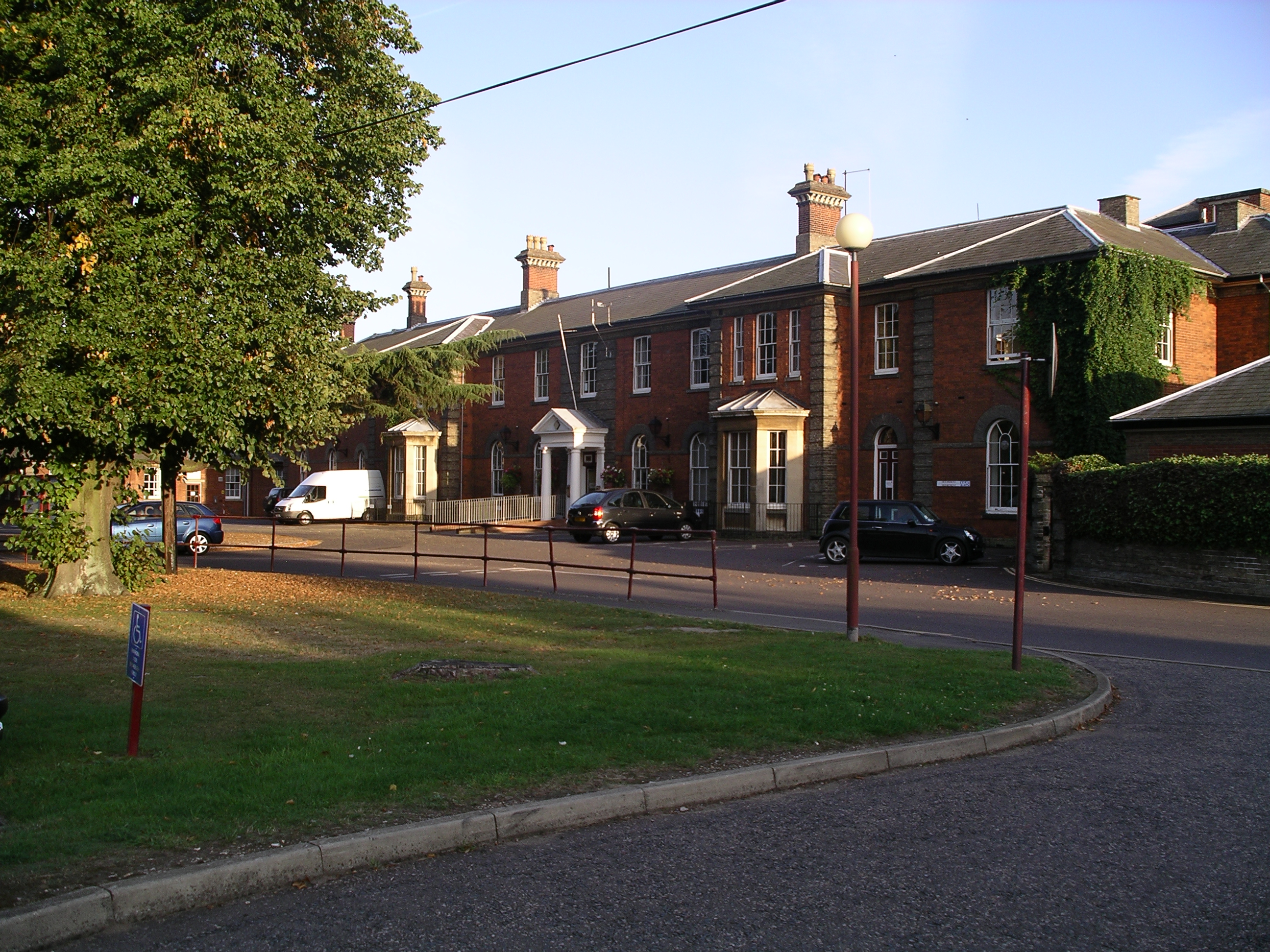 St. Clements Hospital, Foxford Road, Ipswich, Suffolk, England.